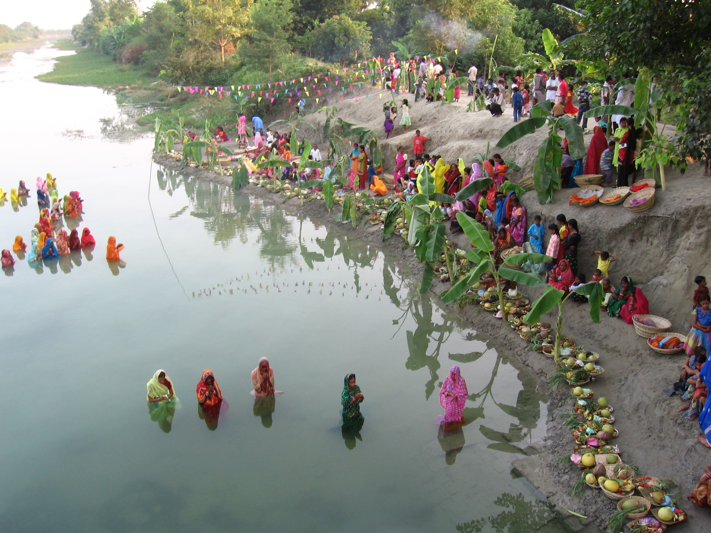 A Typical View of the Chhatt Ghat in a village in Bihar(Jagannathpur:Muzaffarpur).Chhath (also called Dala Chhath ) is a Hindu festival, unique to Bihar, Jharkhand states in India and Terai, Nepal. This festival is also celebrated in the northeast region of India, Madhya Pradesh, Uttar Pradesh, and some parts of Chhattisgarh. It is an ancient and major festival, a festival of worshiping Surya - the Sun god.